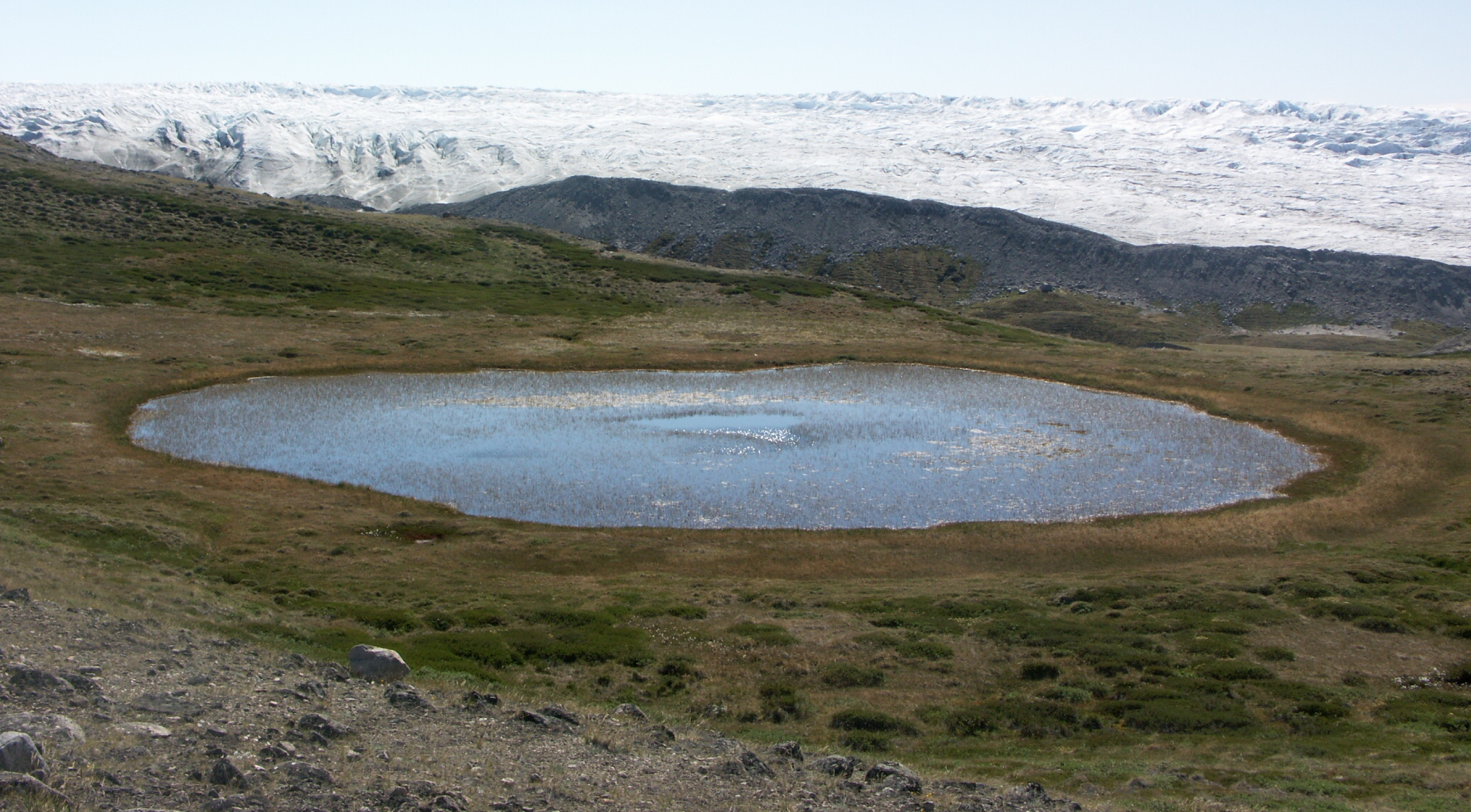 Kettle (round glacial eye-shaped lake), highlands of Isunngua, Greenland